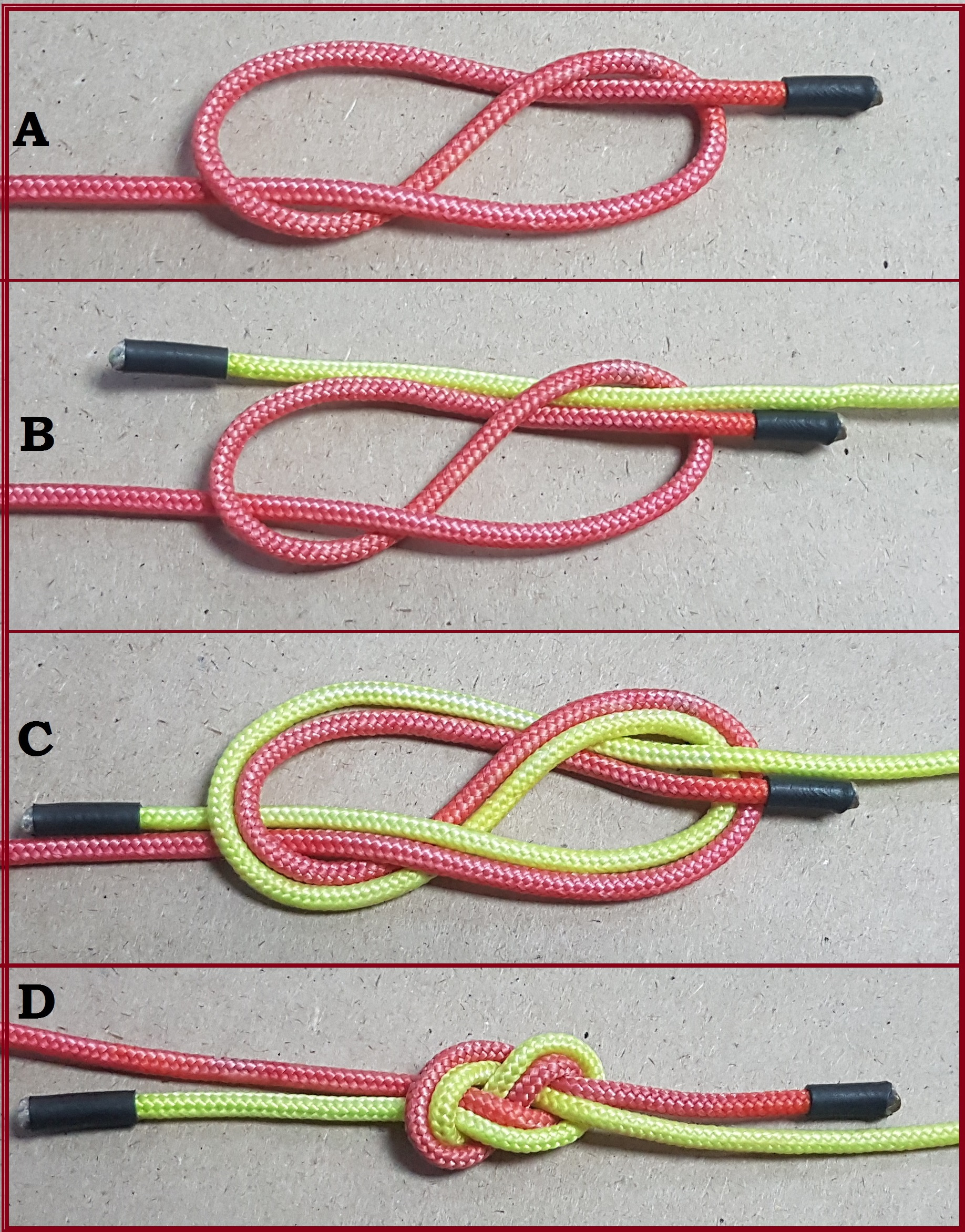 Foto wat een van die maniere wys hoe om twee toue te las m.b.v. die Syfer 8 Knoop.